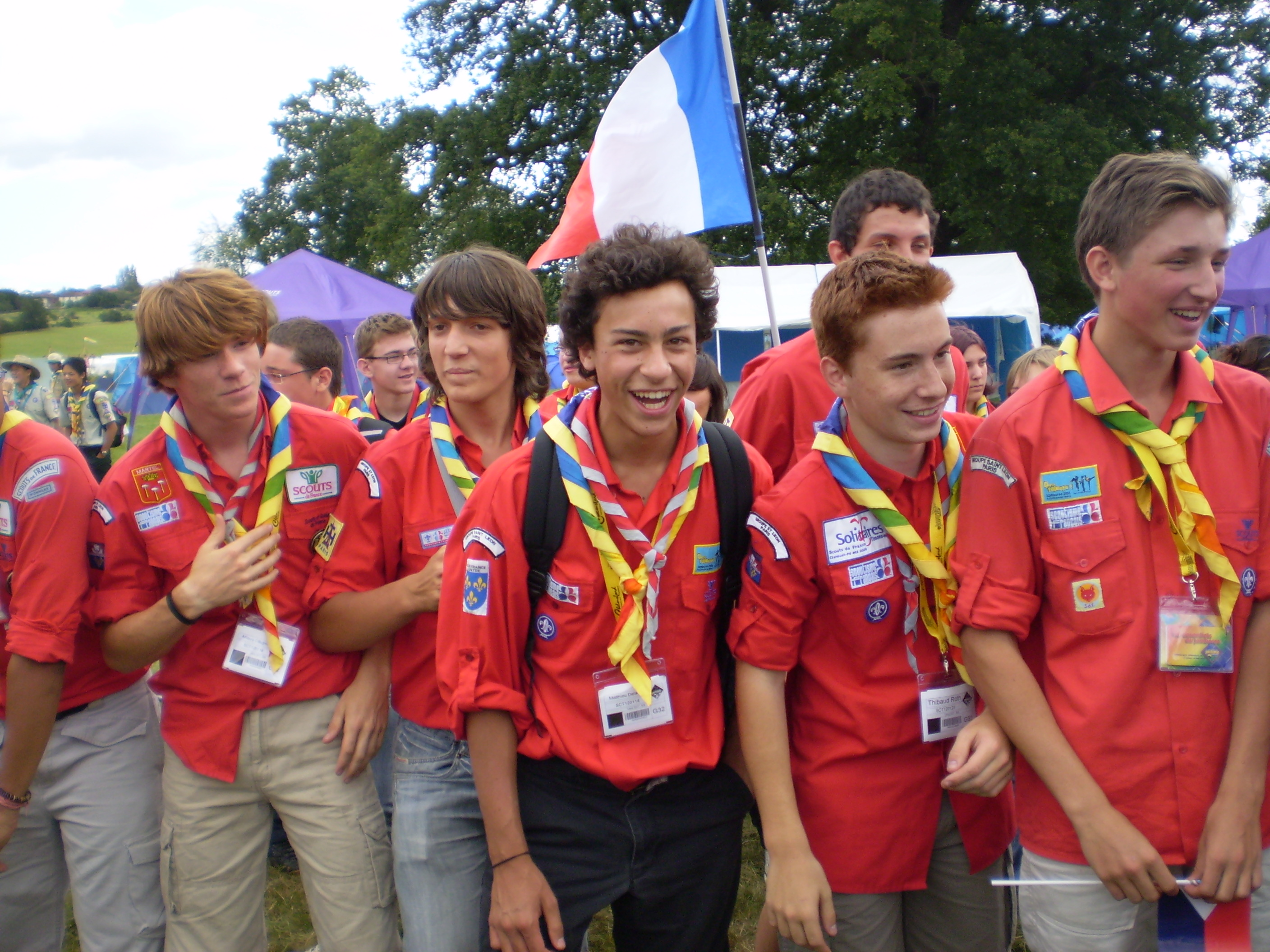 Scouts from France at the 21st World Scout Jamboree